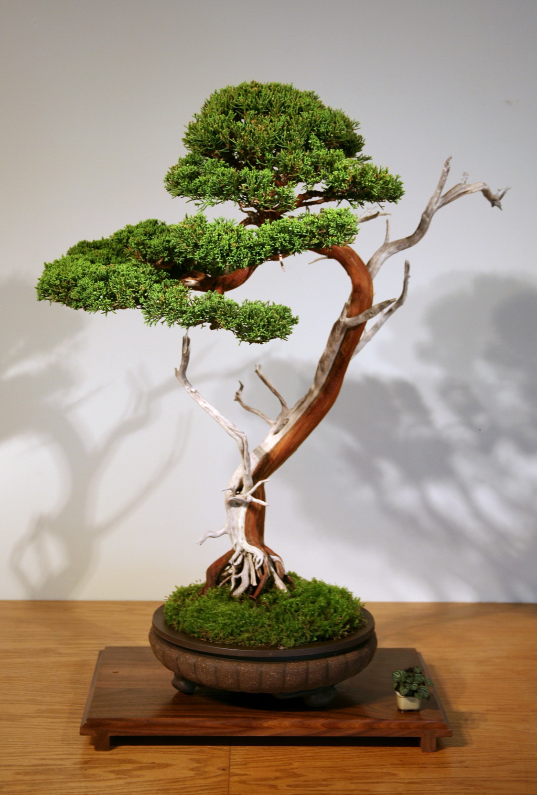 Literati style 37 years in training